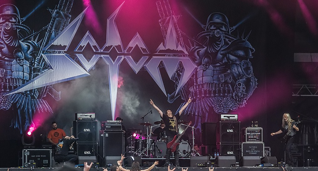 Sodom performing live at With Full Force (2013).